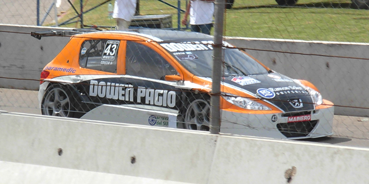 Franco Coscia's #43 TC2000 Peugeot 307 at the 2010 Punta del Este Grand Prix.